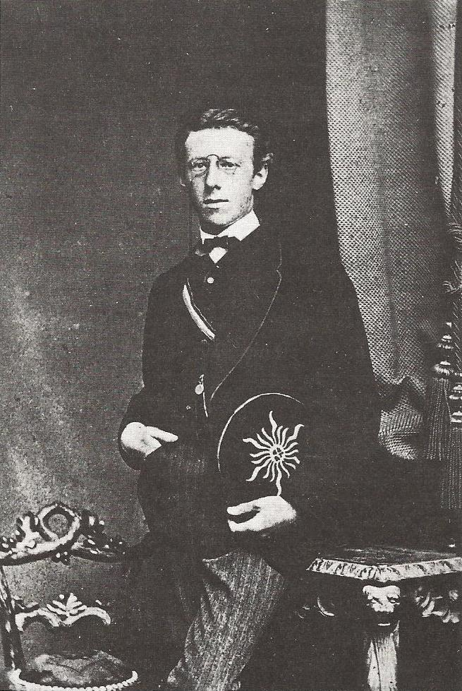 Philipp Stöhr sen., professor of anatomy at the Würzburg University, depicted as a student in the colours of his student fraternity Corps Bavaria WürzburgDepicted person: Philipp Stöhr – German histologist